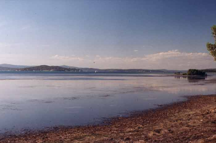 Lake Macquarie, from Swansea showing Pulbah Island. Somewhat aged photograph. Larger version Copyright Chris Starling, licensed under GFDL